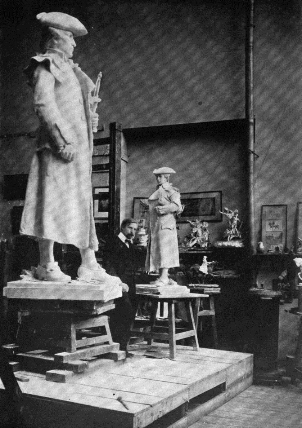 Paul Wayland Bartlett